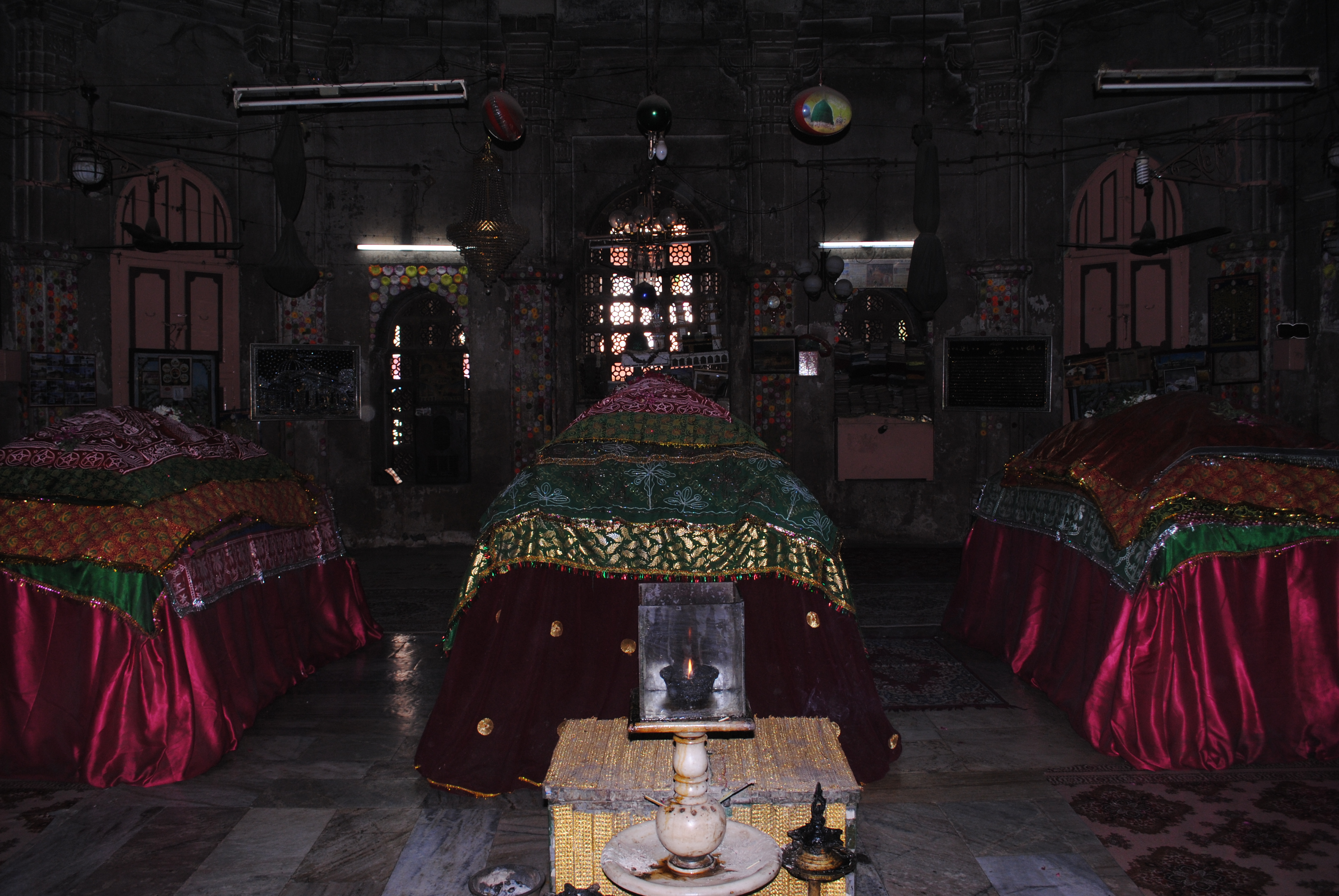 Inside view of Ahmedshah's Tomb